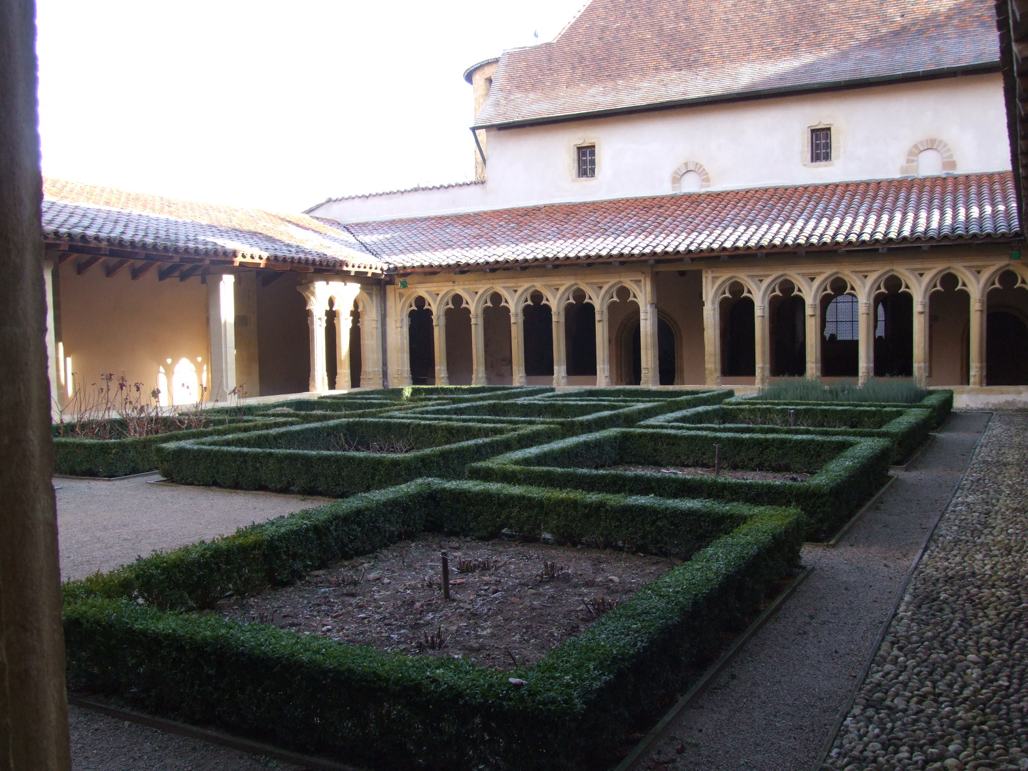 This picture shows Saint-Fortunat abbey.